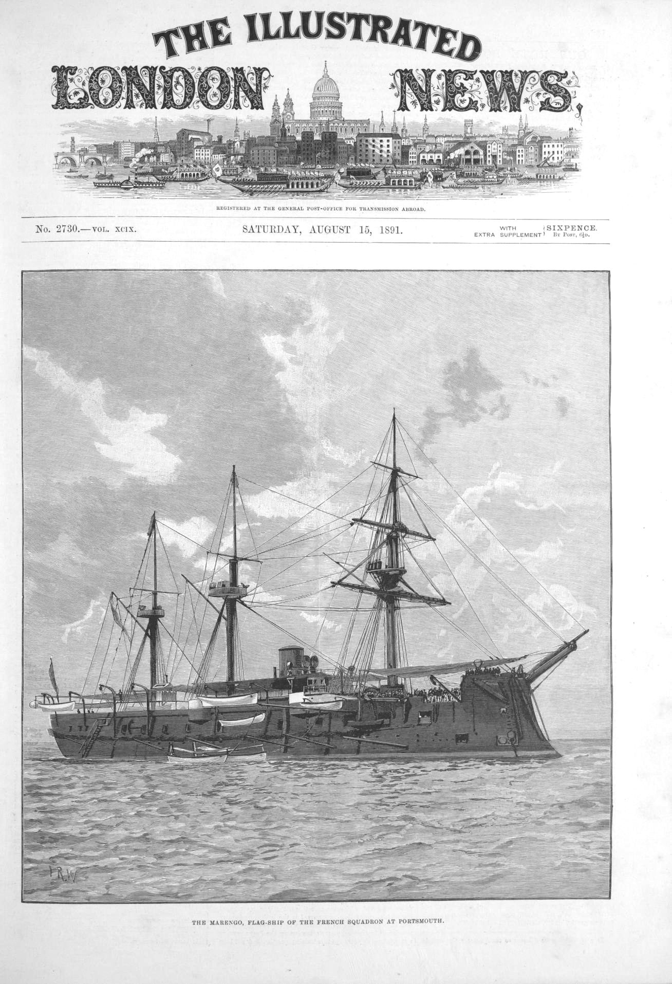 The French ironclad Marengo at Portsmouth, as part of a squadron visiting England in August 1891.